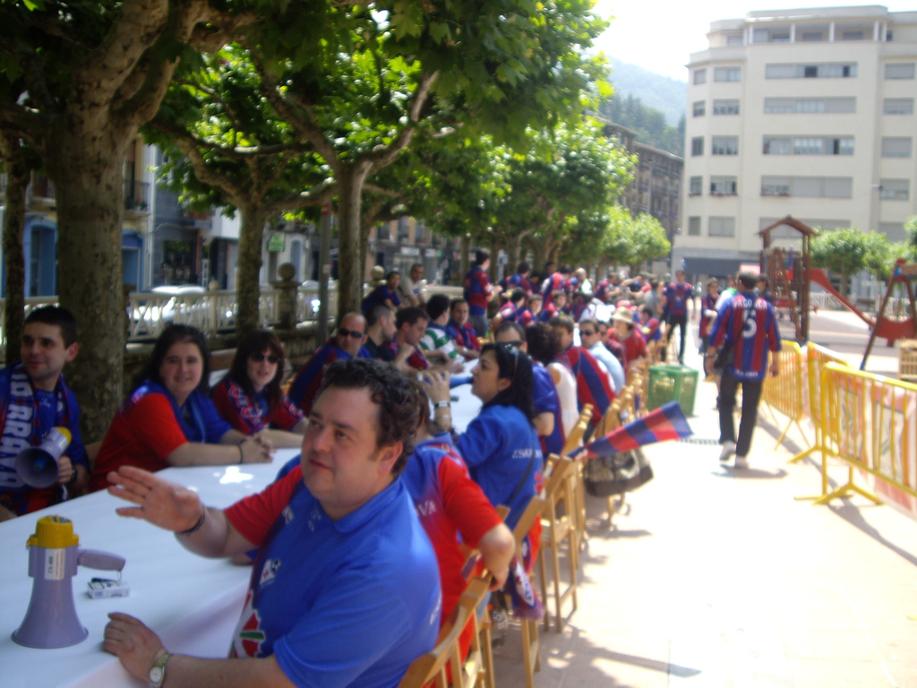 Popular meal gathering in Eibar, Basque Country.